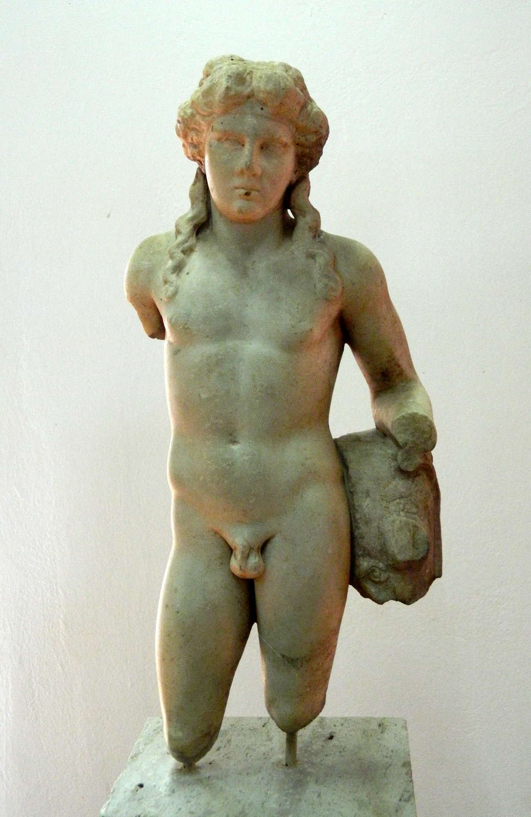 The statuette of a young Dionisos. Marble copy of the 2nd cent. A.D. from an original of the 4th cent. B.C. Archeological Museum of Lamia, Greece